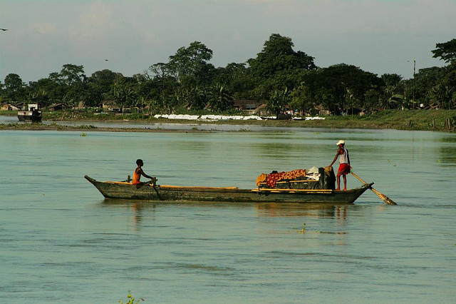 The banks of the Brahmaputra river at the edge of Dibrugarh, Assam, India.